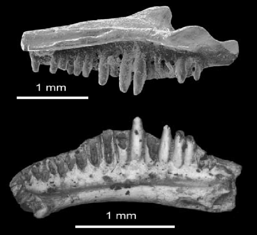 Tooth-bearing bones of Anoualerpeton unicus GARDNER & al. 2003 from its type locality in the Lower Cretaceous of the eastern High Atlas, Morocco. Top: Museum National d’Histoire Naturelle Paris, Anoual collection (MNHN.MCM) 189, incomplete left maxilla (posteriormost portion missing) in lingual view. Bottom: MNHN.MCM 195, anterior portion of a right dentary in lingual view.